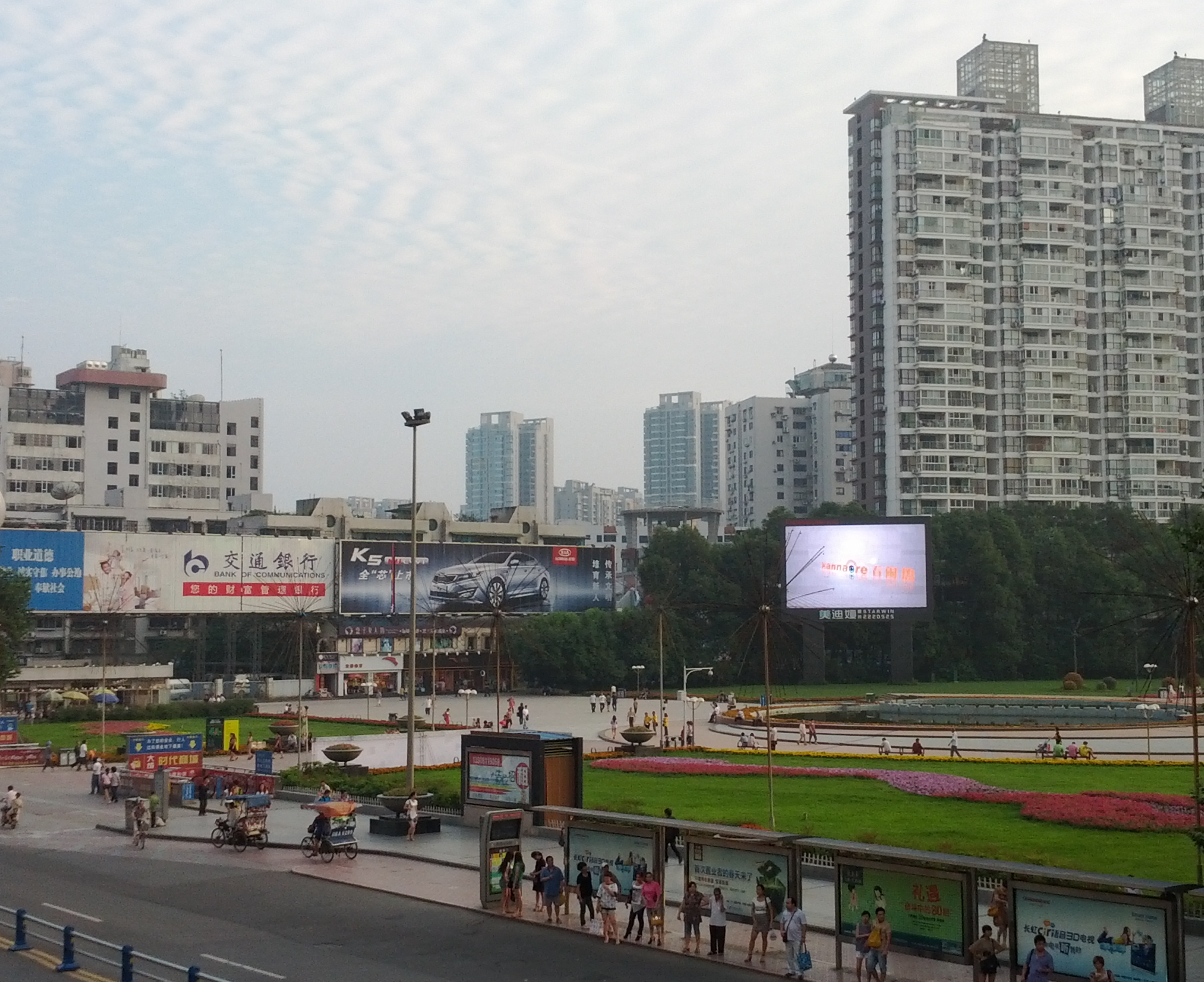 Looking southwest in the early evening over People's Park（人民公园）from the intersection of Fucheng Road （涪城路）and Linyuanludongyuan （临园路东段), at the center of Mianyang, Sichuan, China.